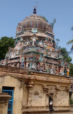 Tiruppanthuraisivananthesvarartemple திருப்பந்துறைசிவானந்தேசுவரர்கோயில்